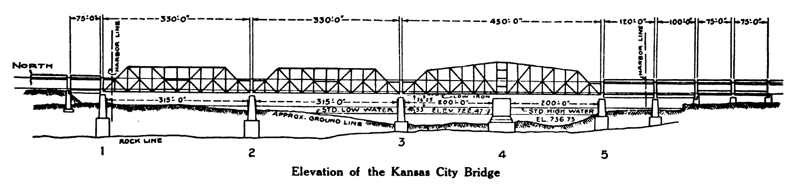 Plan and elevation of the new Hannibal Bridge from 1917